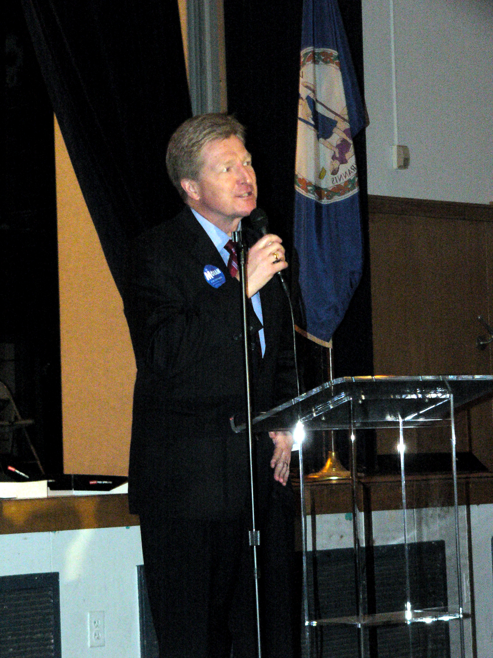 Brian J. Moran is a Democratic member of the Virginia House of Delegates from Northern Virginia's 46th district and is chairman of the Virginia House Democratic Caucus. He has served since 1995. He serves on the Transportation, Courts of Justice and Health, Welfare and Institutions Committee's in the House. He is a member of the Virginia Crime Commission.